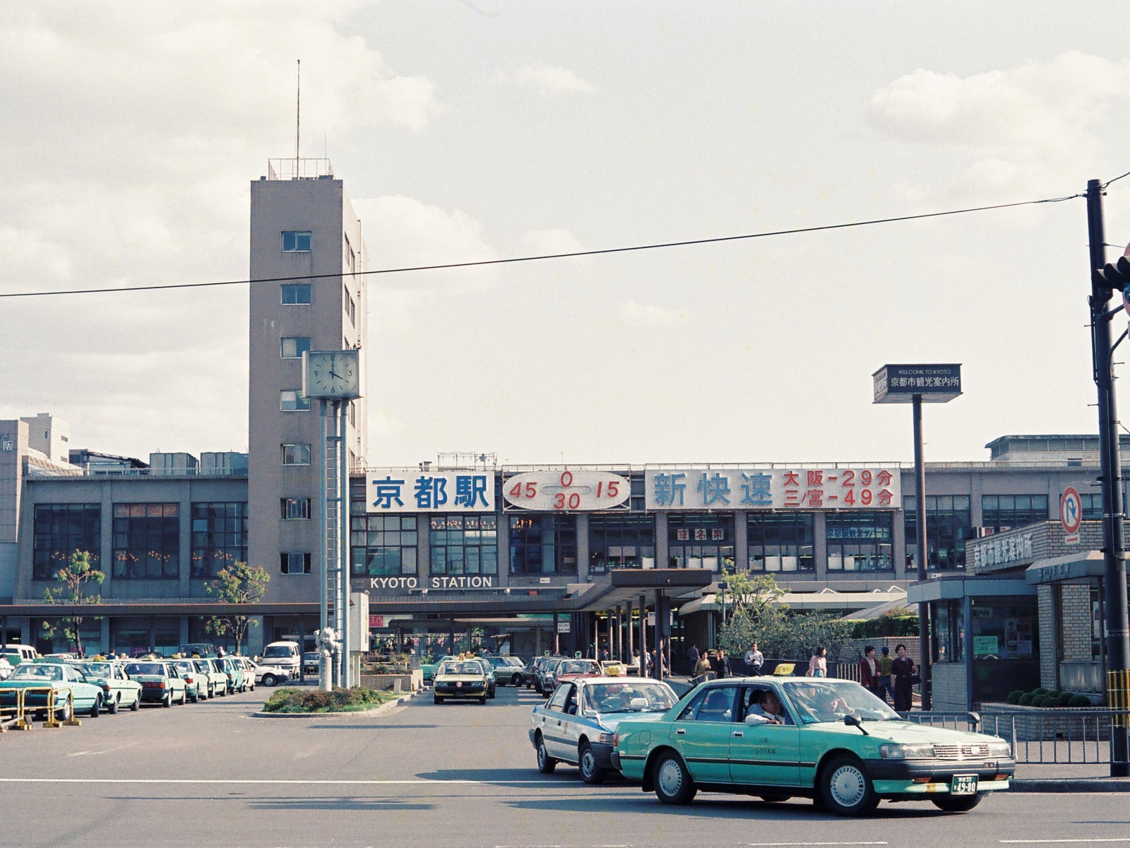 Kyoto Station's Karasuma Gate building (third generation) in Shimogyō-ku, Kyoto, Japan. The building opened in 1952.